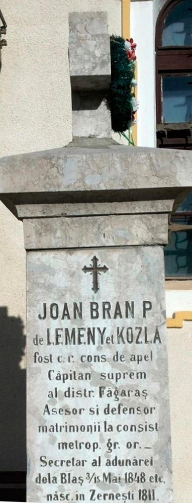 Ioan Bran's tomb in the cemetery that is surrounding the old Brasov's church.